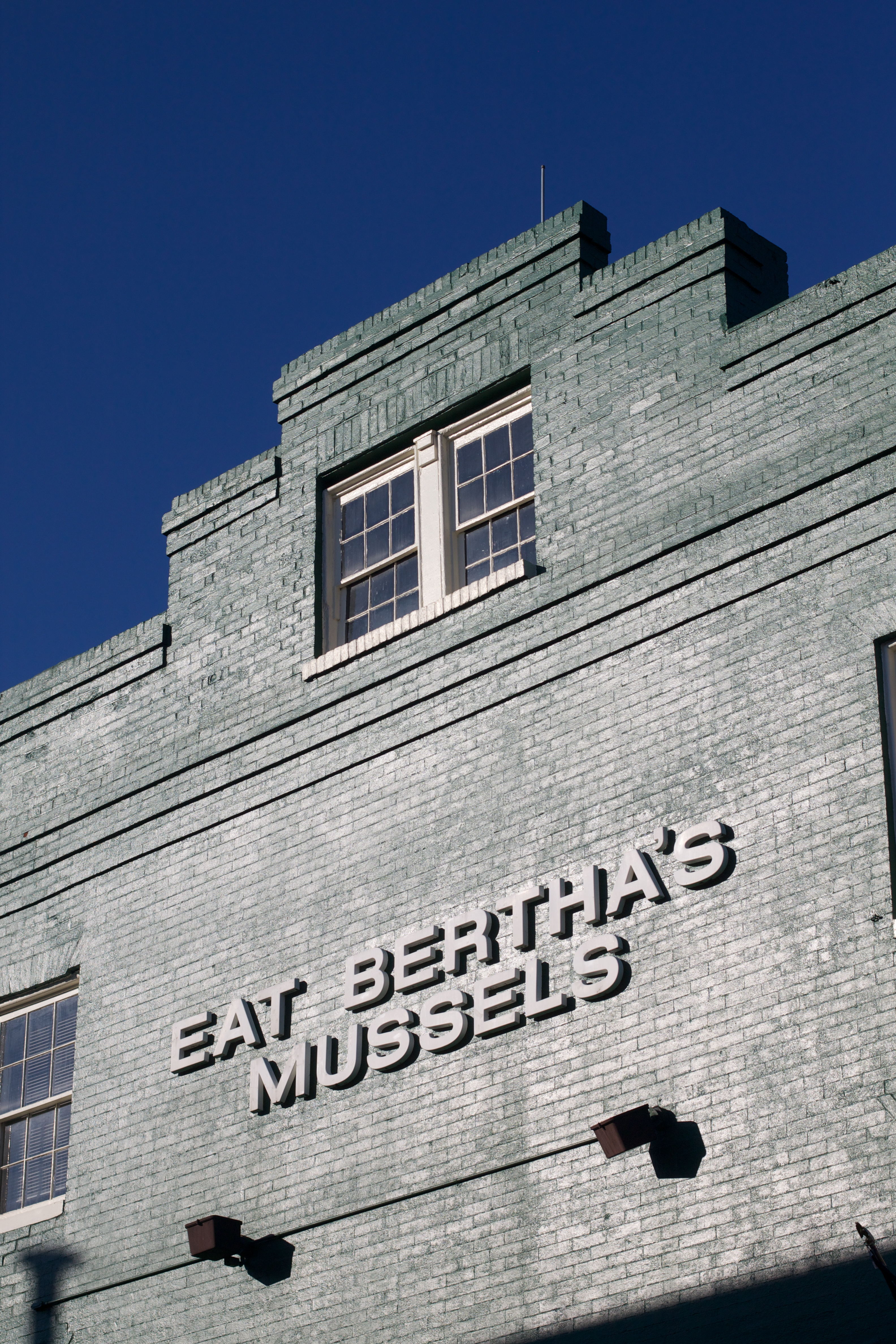 Bertha's Restaurant with their "Eat Bertha's Mussels" slogan, Fells Point MD.